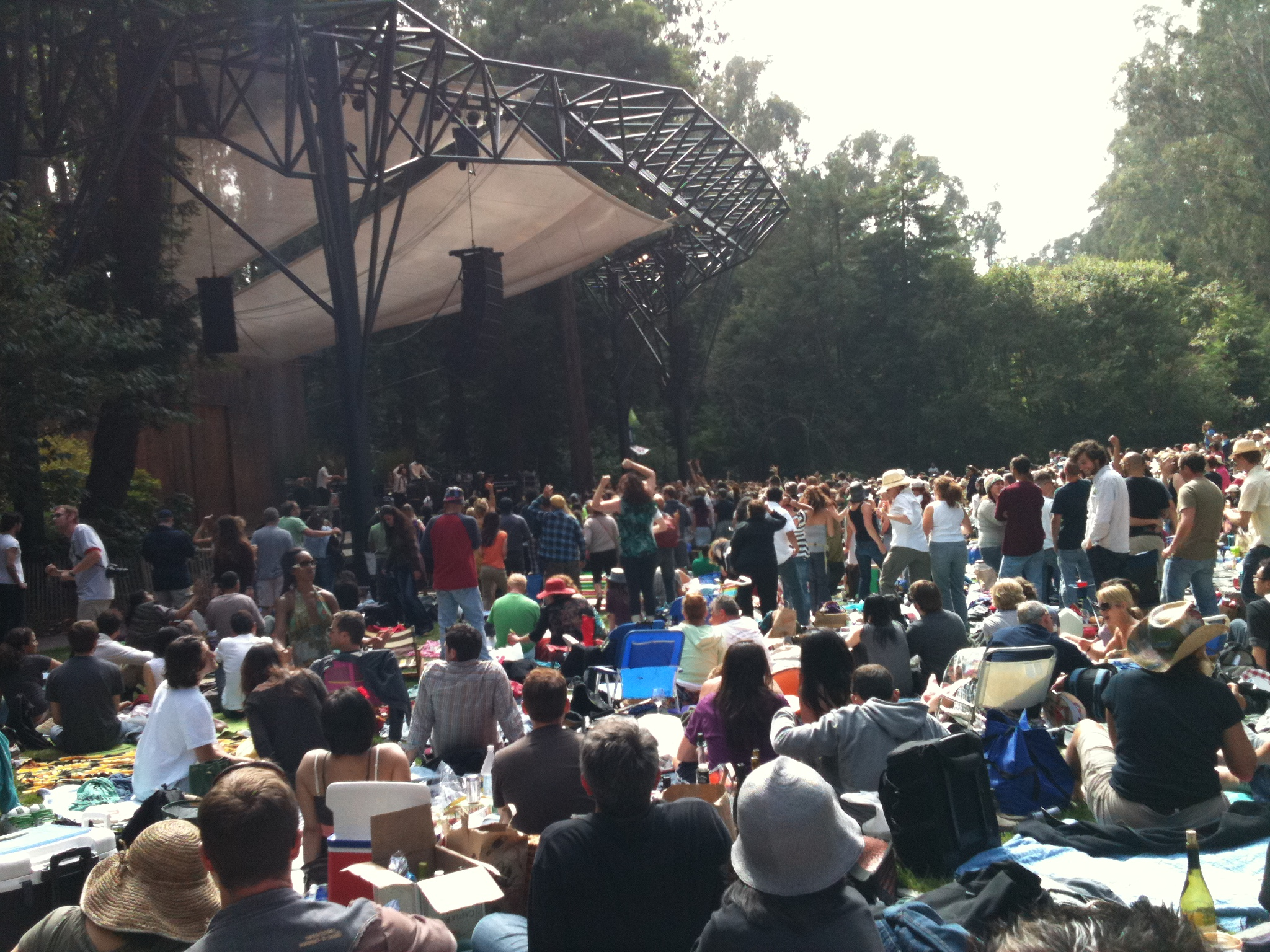 Stern Grove Festival